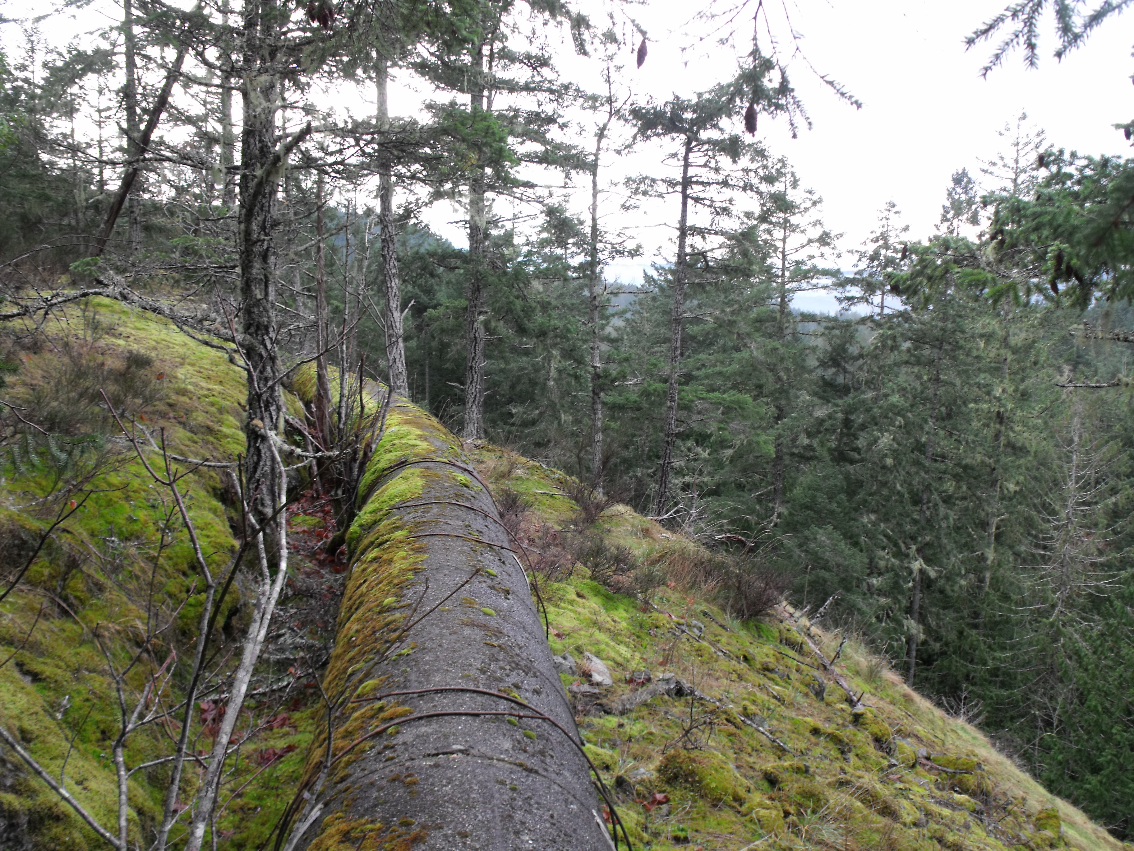 The pipe snaking through the hills.